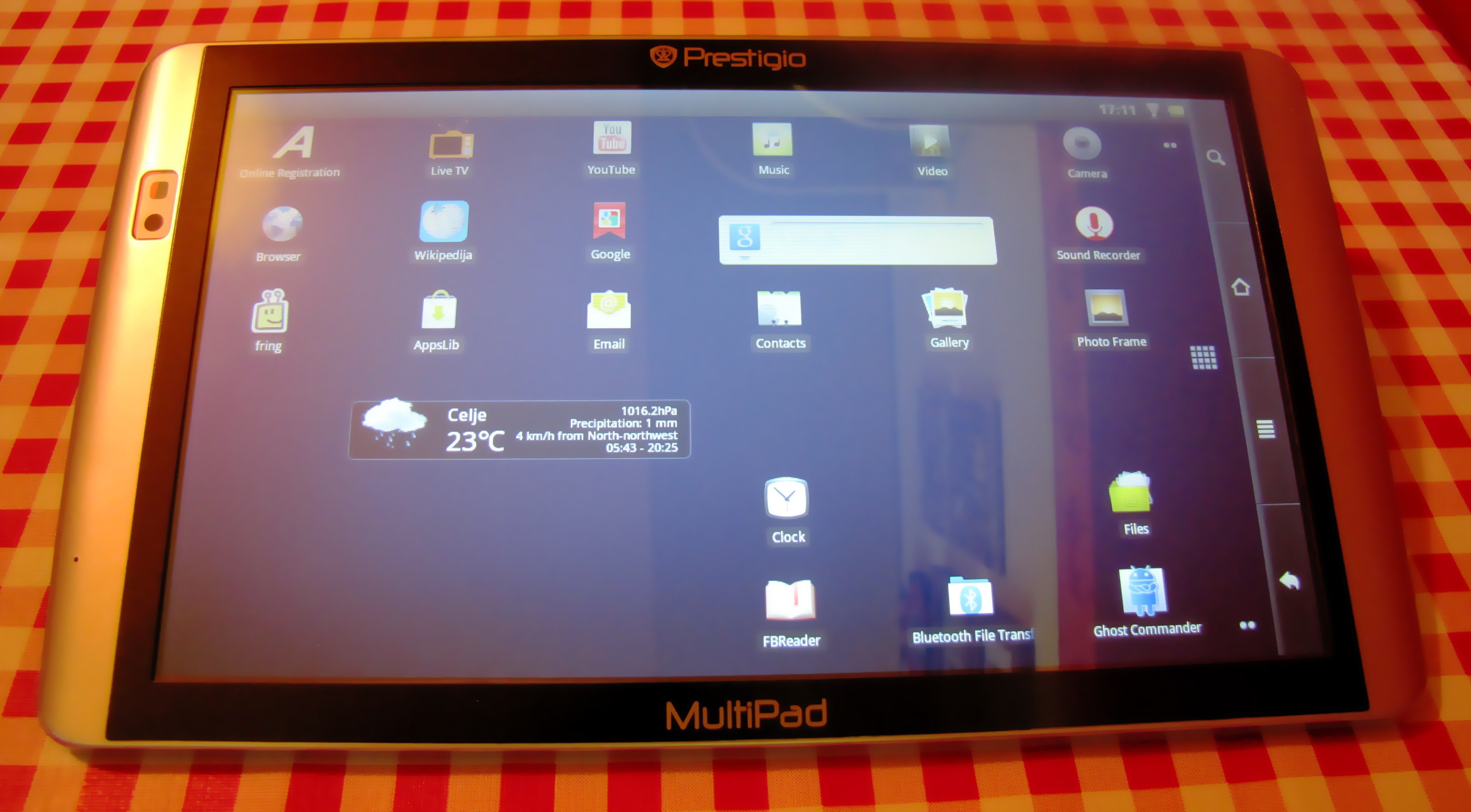 Internet tablet Prestigio MultiPad PMP7100C